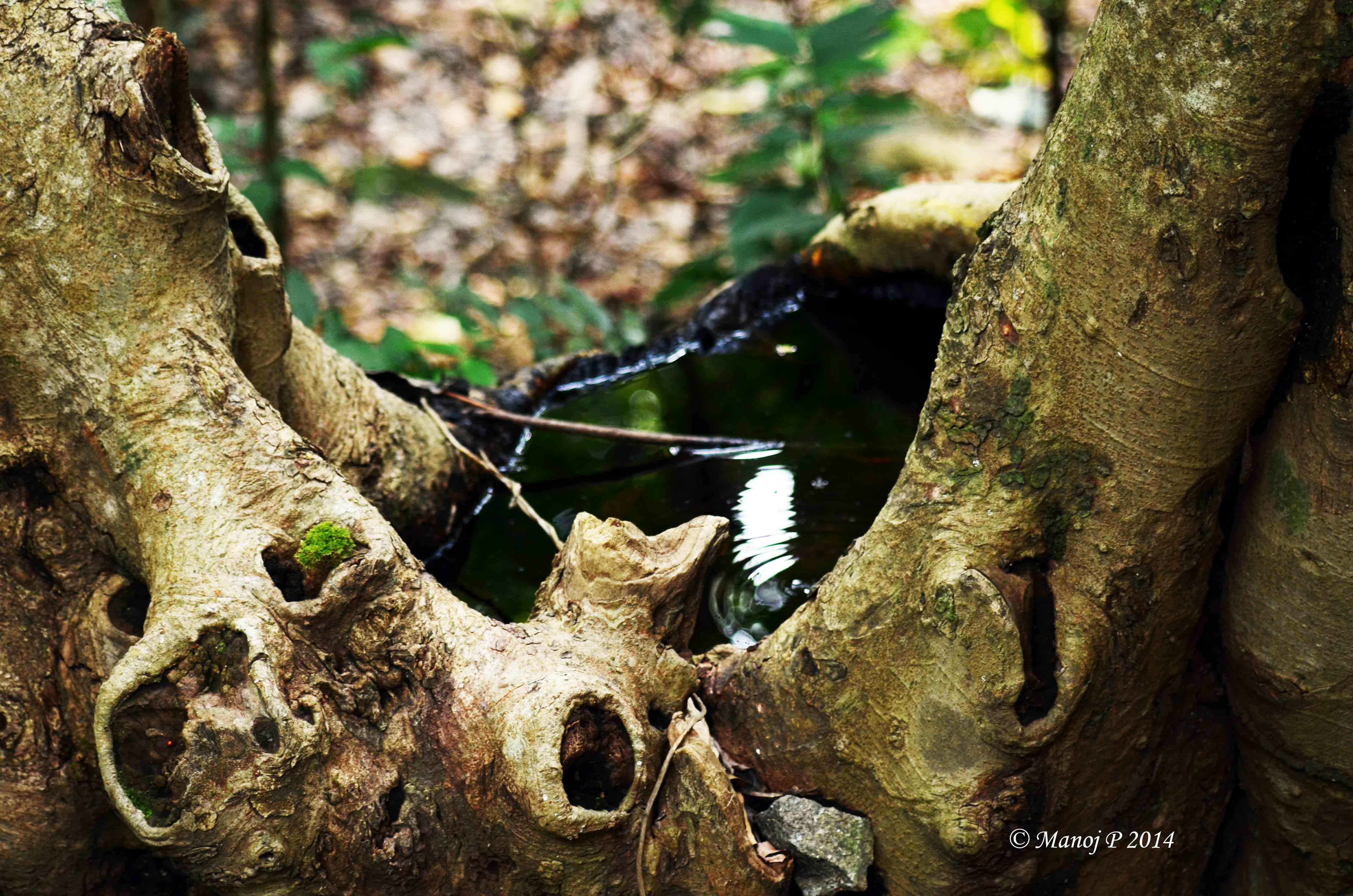 Lyriothemis tricolor from Shendurney Wildlife Sanctuary, Kerala.